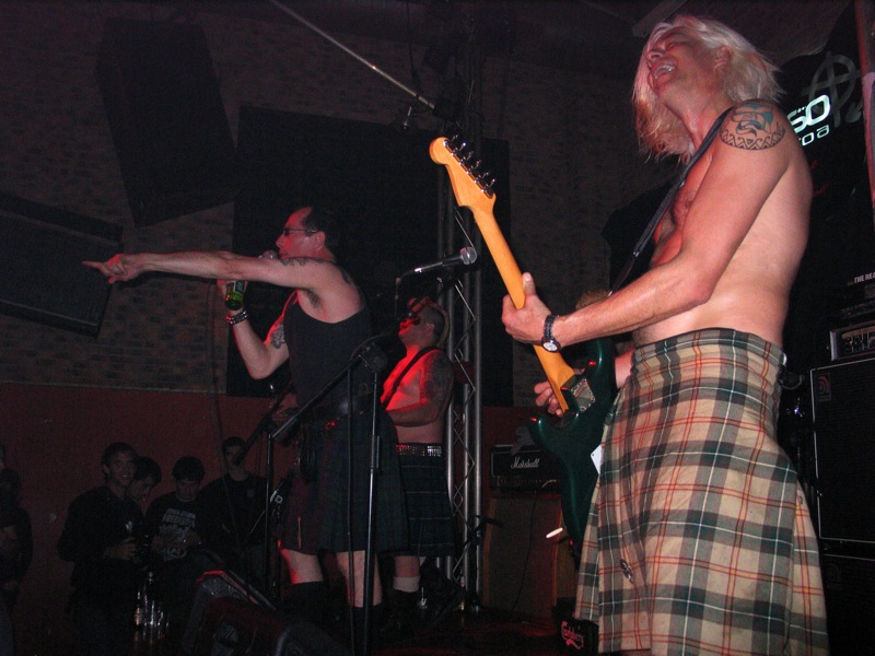 The Real McKenzies, Scottish-influenced Celtic punk band from Canada.